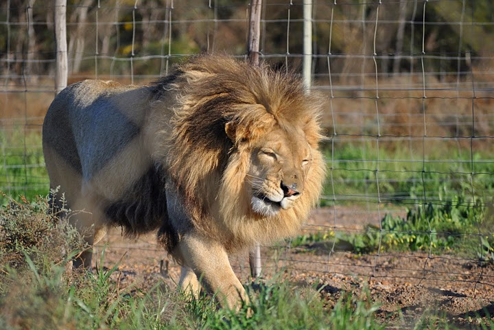 Abused circus lion Brutus, Lion Park Drakestein South Africa